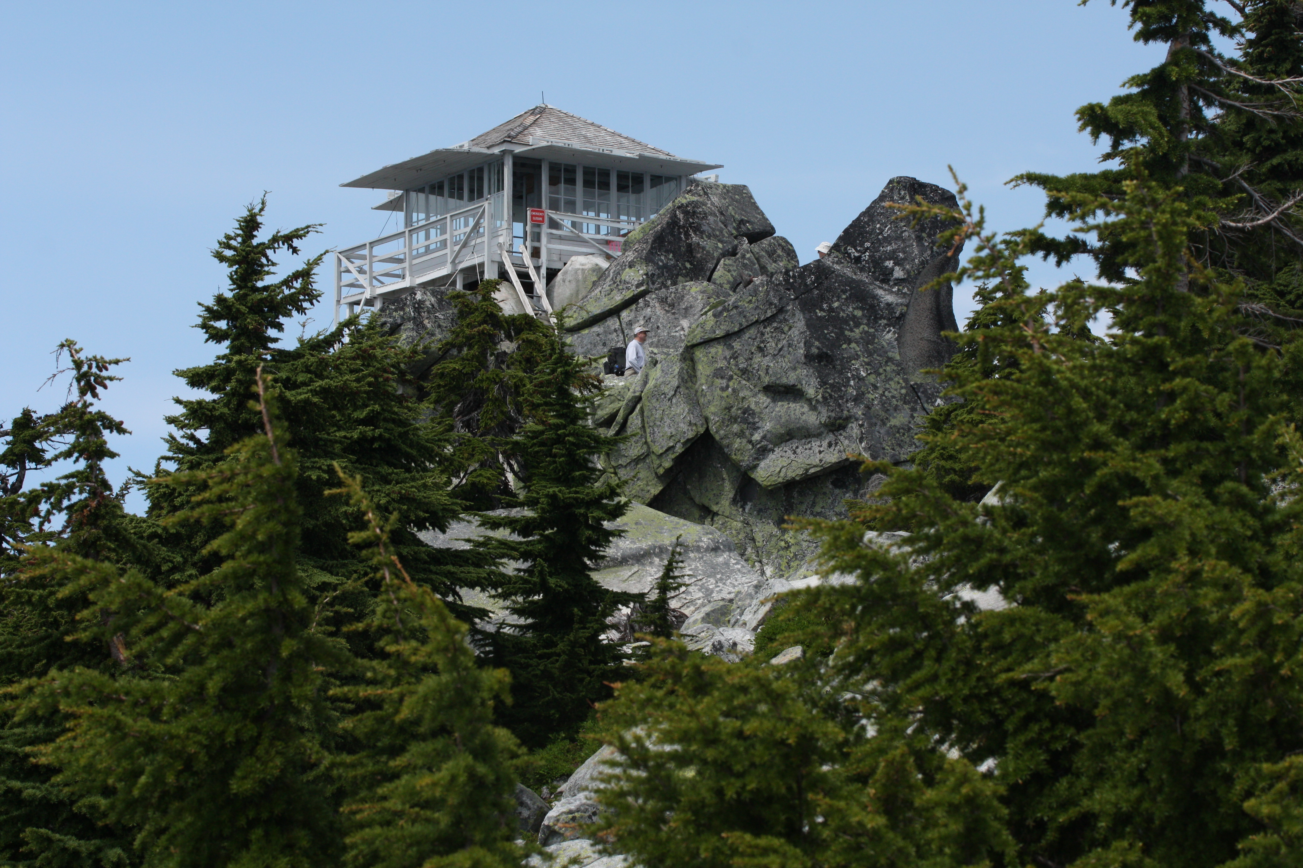 Mount Pilchuck (5340 feet, 1628 meters) summit; fire lookout